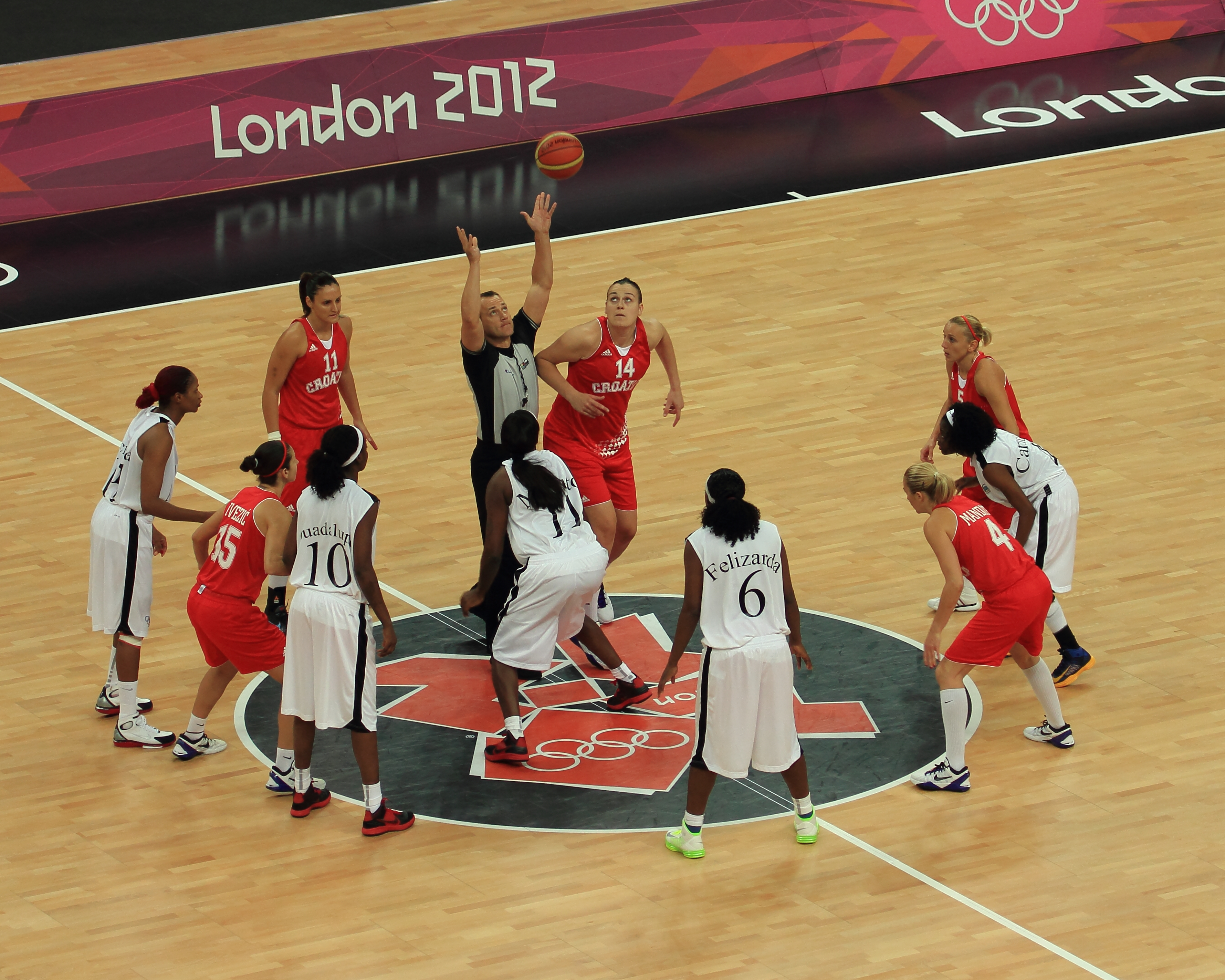 Angola v Croatia in this Olympics Group A premilinary match. Croatia eventually won 75-56. Never really watched Basketball before but I enjoed the game.